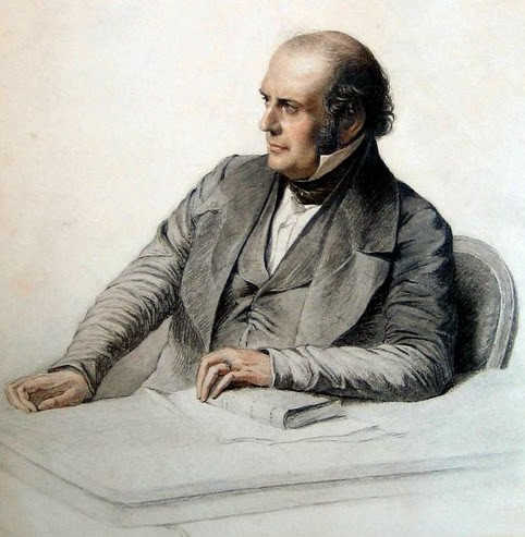 Italian mathematician and book thief Guglielmo Libri Carucci dalla Sommaja (1803-1869)